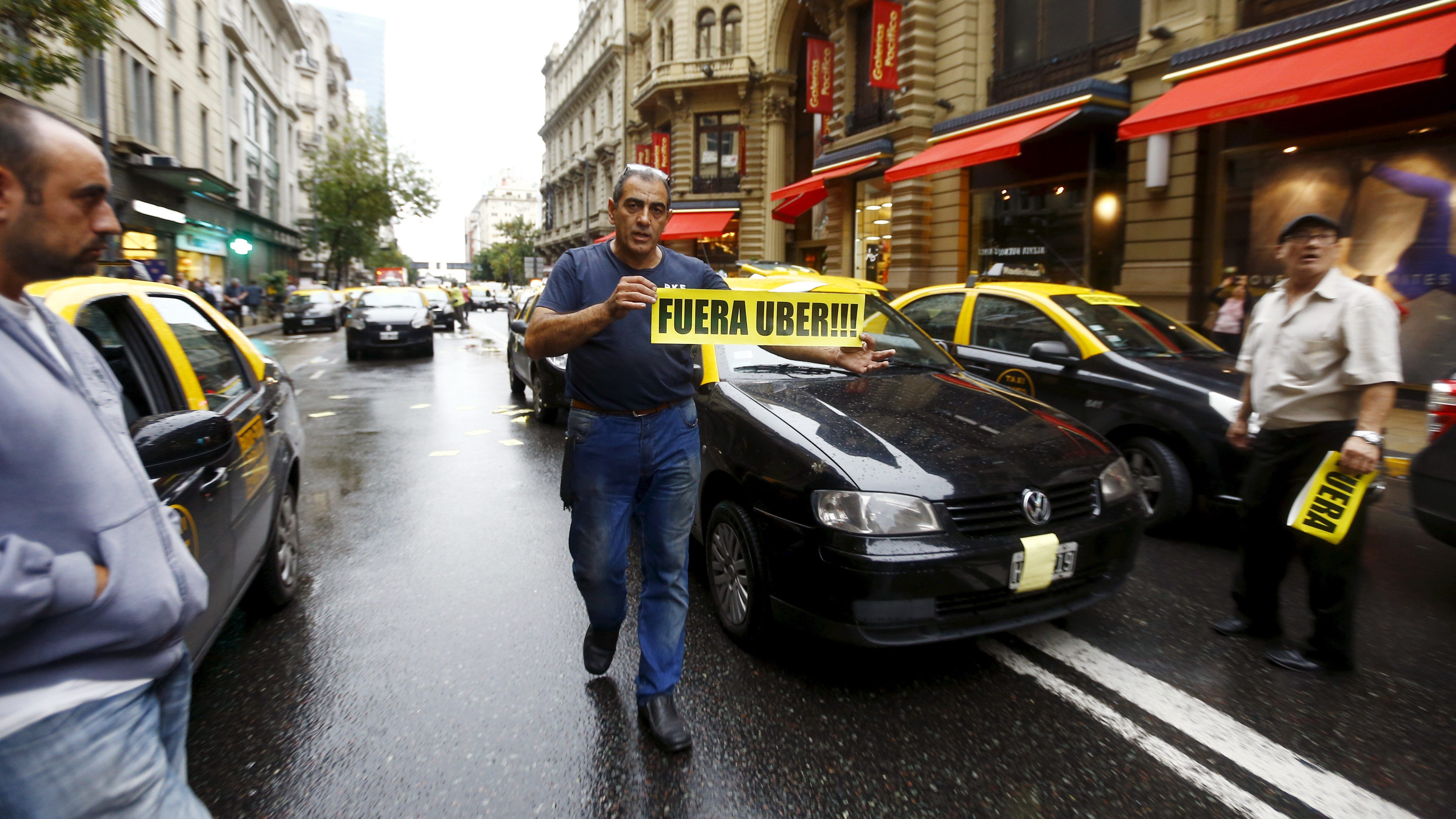 Protests against Uber in Buenos Aires, Argentina